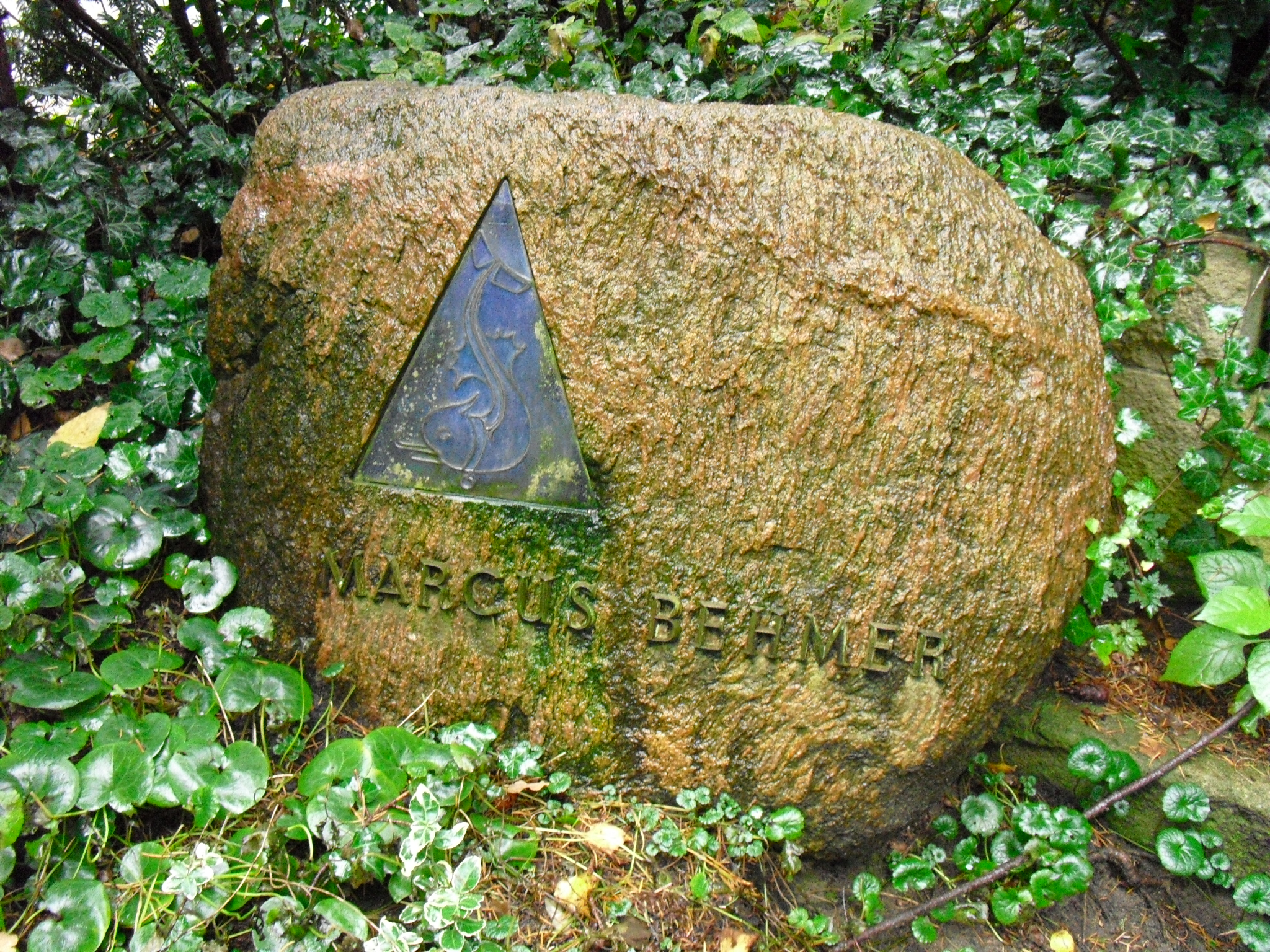 Grave of German writer, book illustrator, graphic designer and painter Marcus Behmer in Friedhof Heerstraße in Berlin-Westend